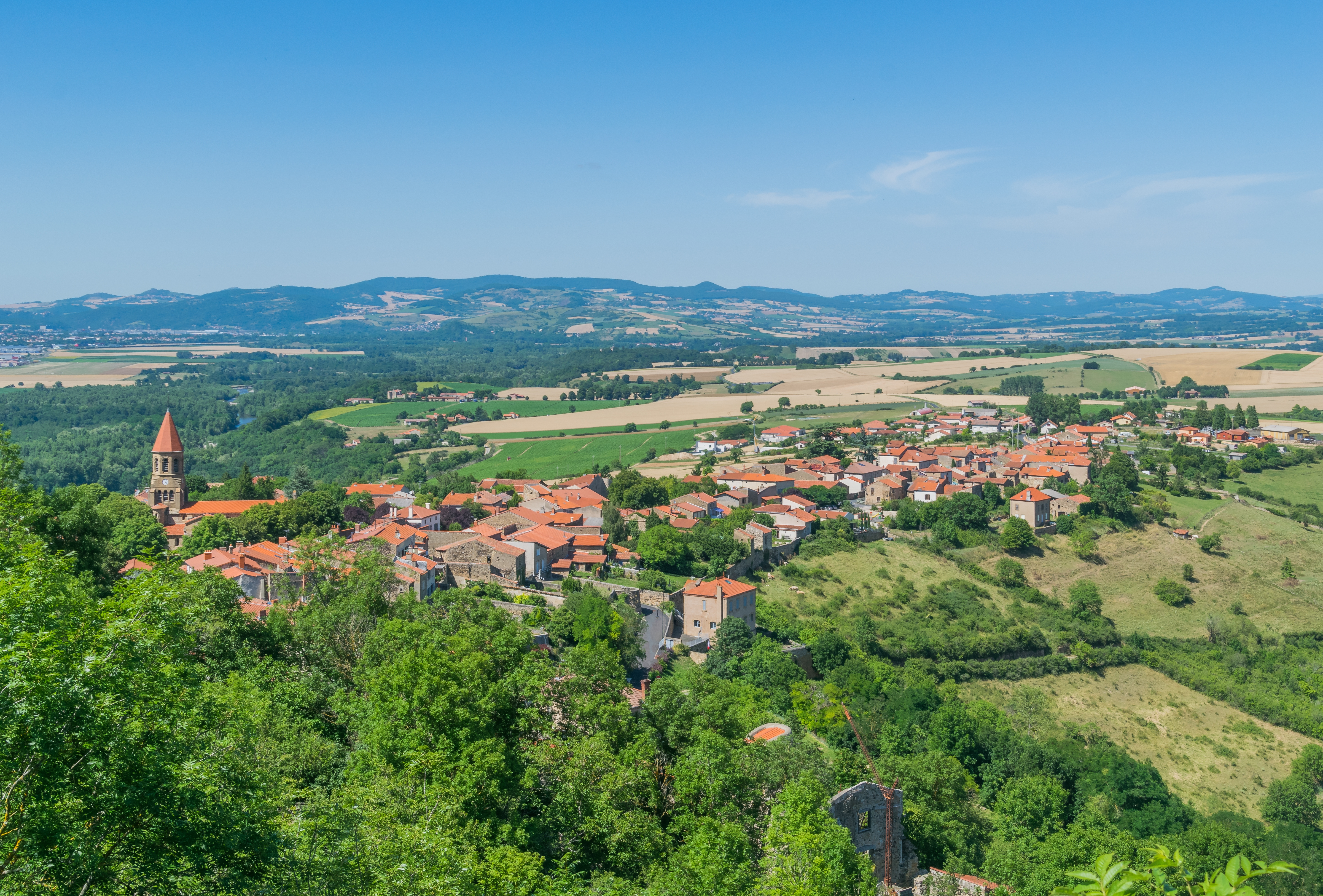 View of Nonette, Puy-de-Dôme, France